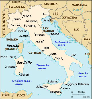 Map of Italy